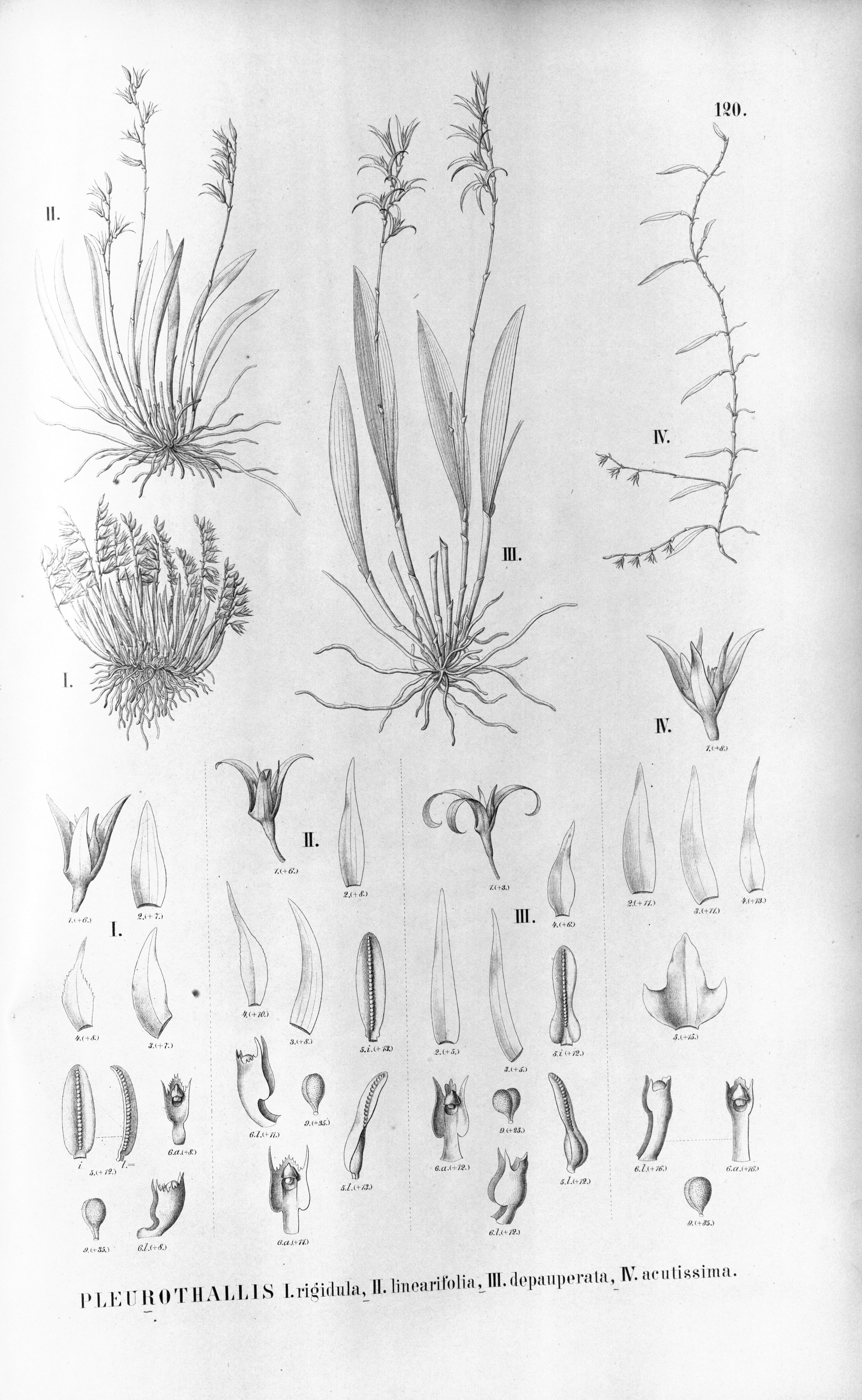 Illustration of I. Anathallis linearifolia (as syn. Pleurothallis rigidula) II. Anathallis linearifolia (as syn. Pleurothallis linearifolia) III. Anathallis linearifolia (as syn. Pleurothallis depauperata) IV. Anathallis spiculifera (as syn. Pleurothallis acutissima)